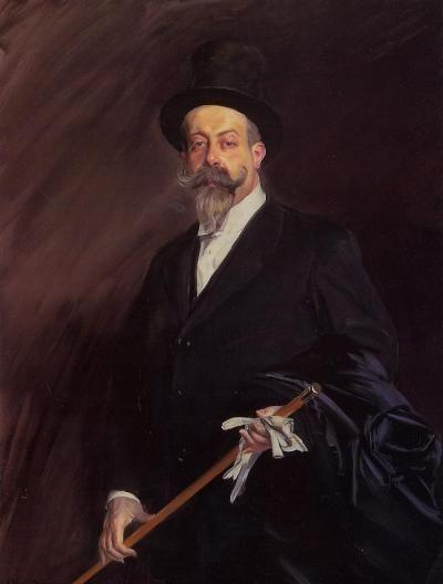 Portrait of Henri Gauthier Villars, aka Willy